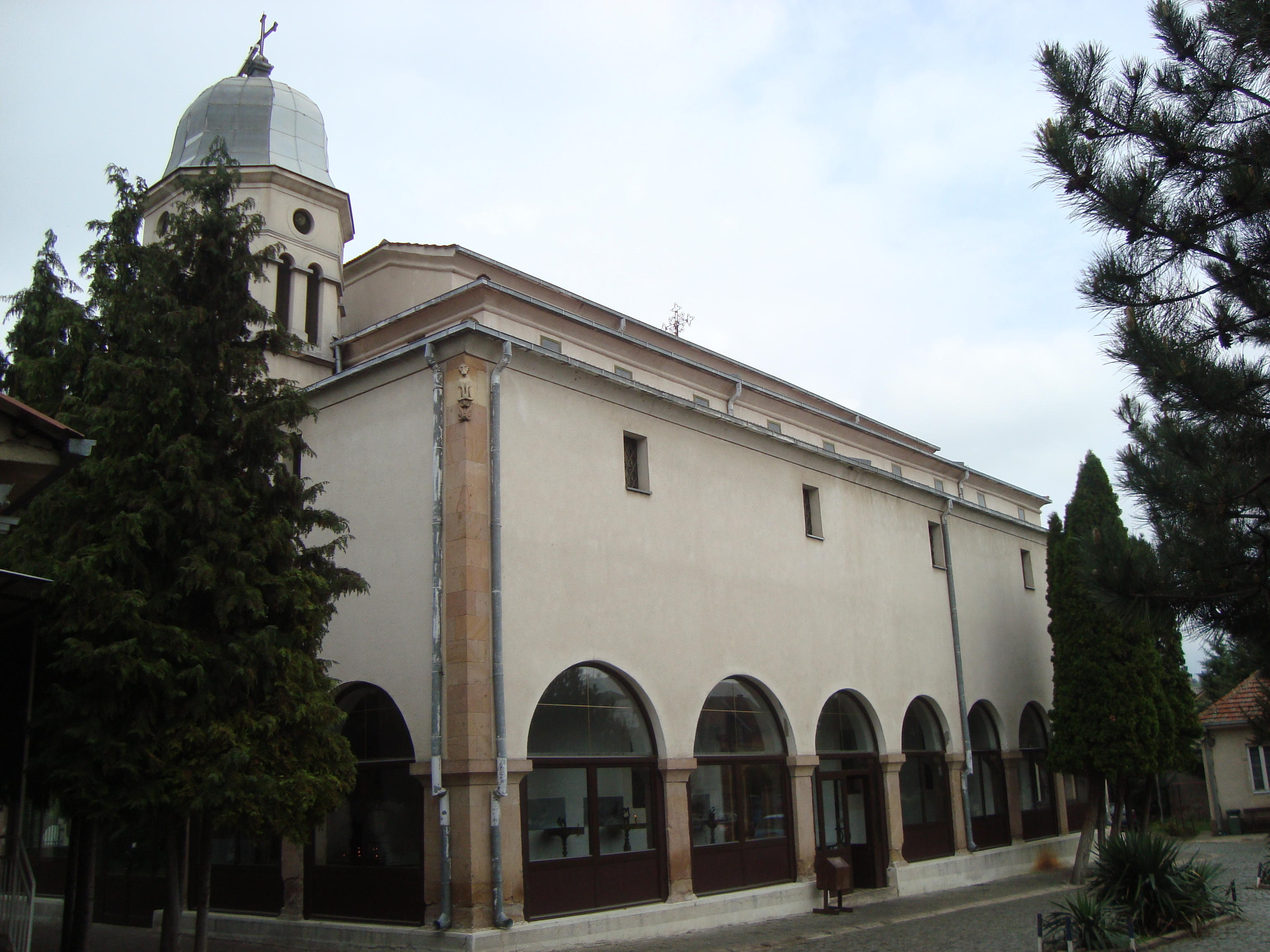 St. Nikola Church, Kumanovo, Macedonia.